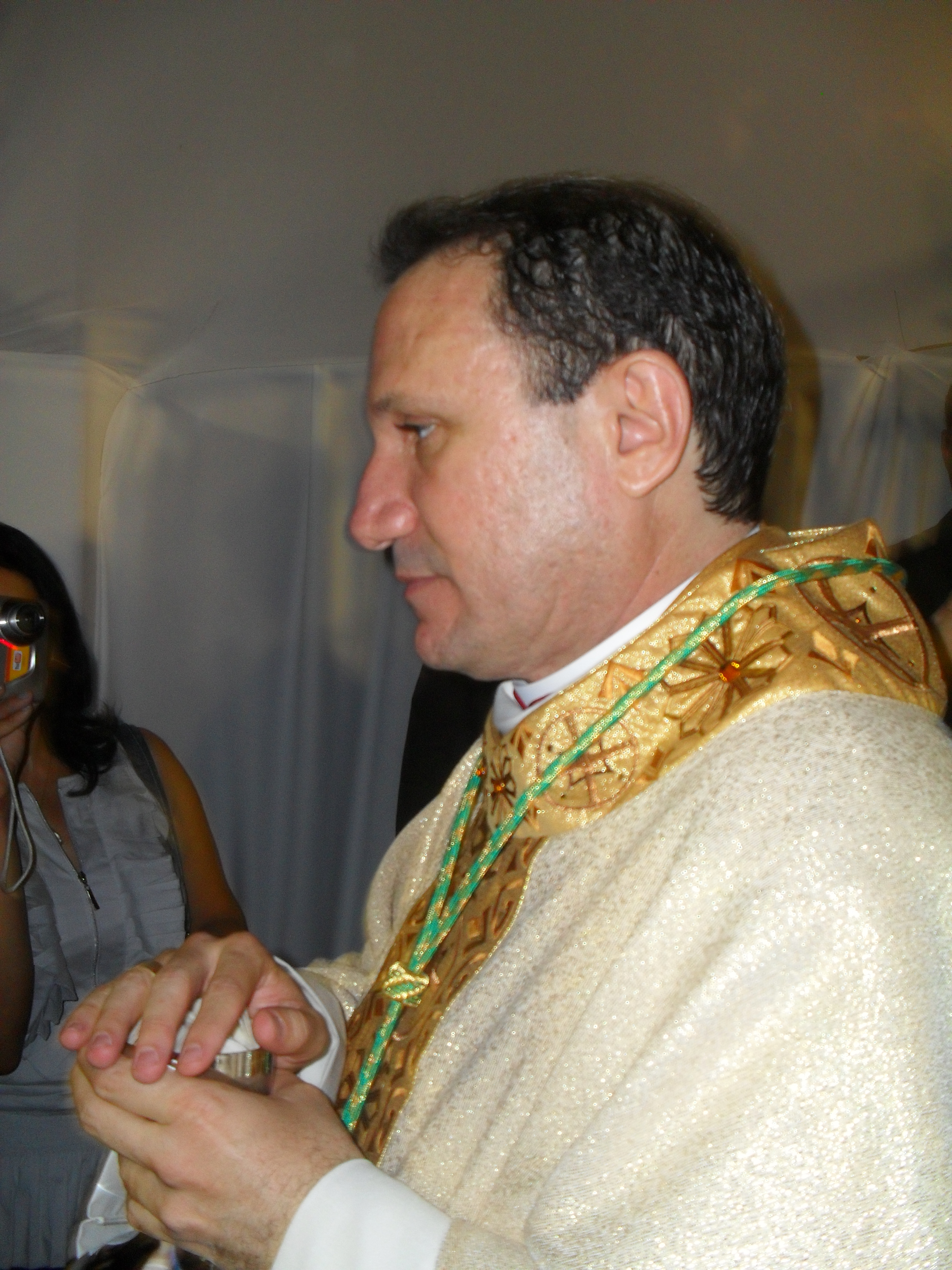 Don Magnus distributes communion